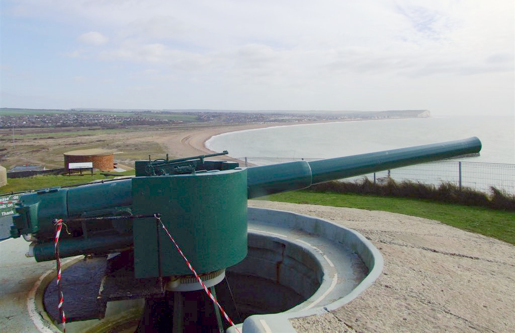 Photograph of BL 6 inch Mk VII gun, at Newhaven Fort, UK.